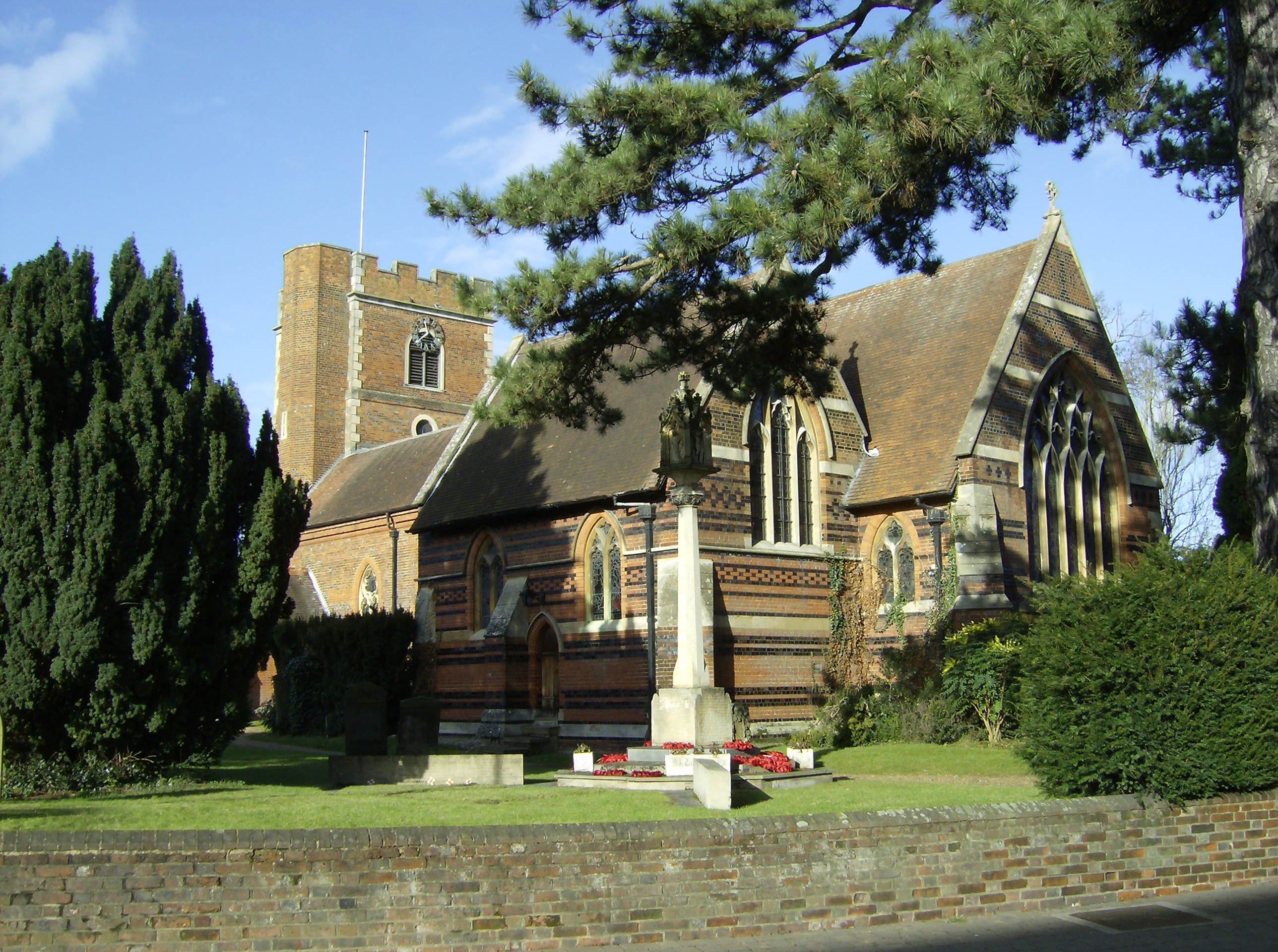 Parish church of Chalfont St Peter, Buckinghamshire, England, seen from the southeast